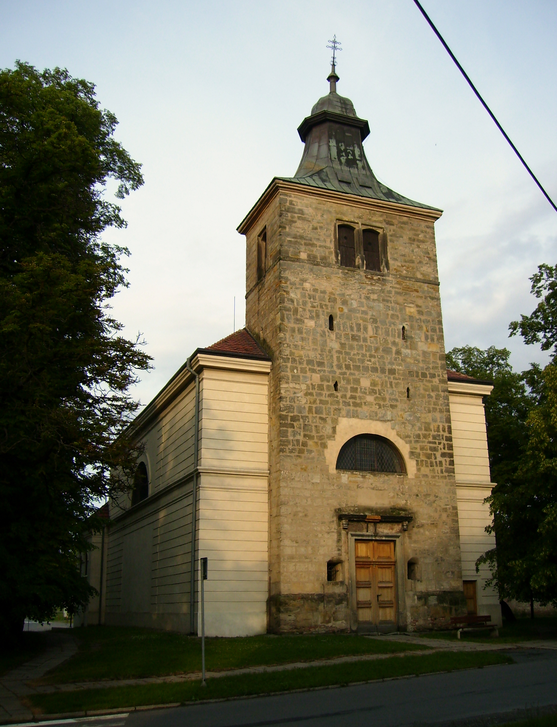 Church of Saint Jacob in Kounice, Nymburk District, Central Bohemian Region, Czech Republic.